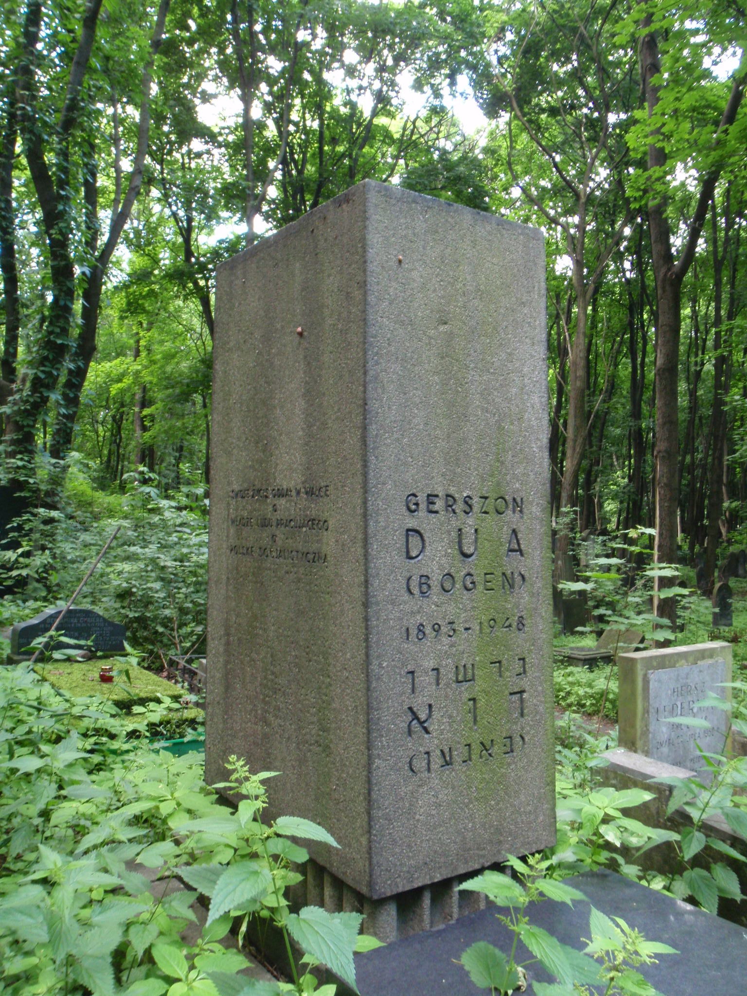 Grave of Gerszon Dua